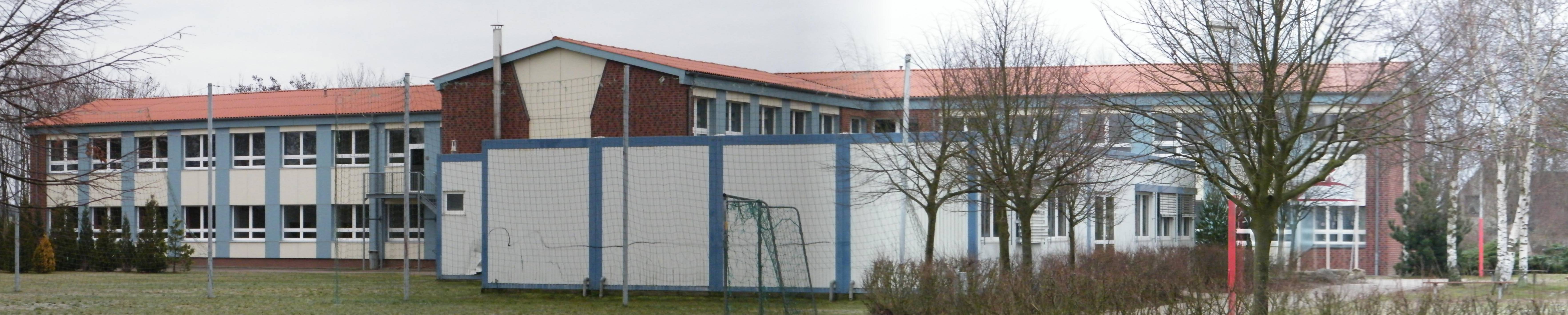 school Cambs